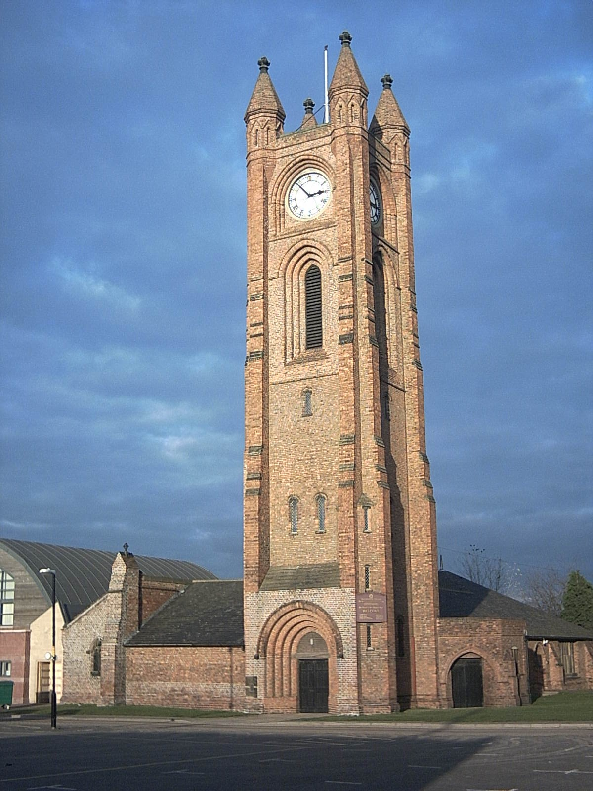 Holy Trinity,NORTH ORMESBY Taken By Myself Neil Gray (Nez202) 2007.